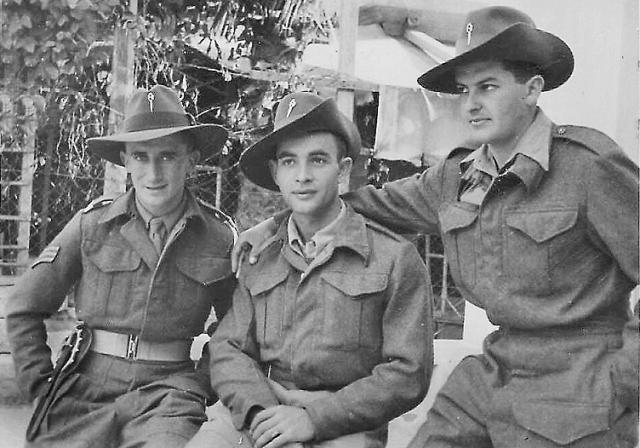 Men of No. 51 Middle East Commando: Dov Cohen, Philip Koegel, Dolph Zenter